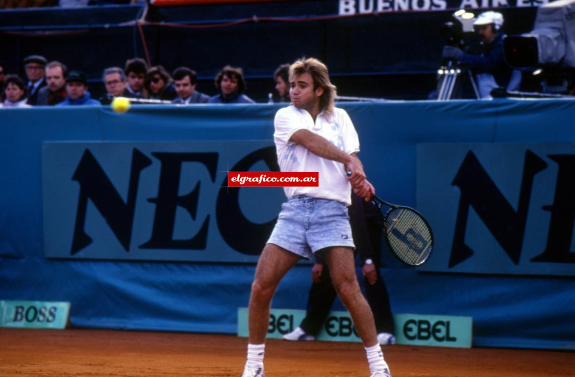 Agassi at the Buenos Aires Lawn Tennis Club playing Argentina in the Americas zone.